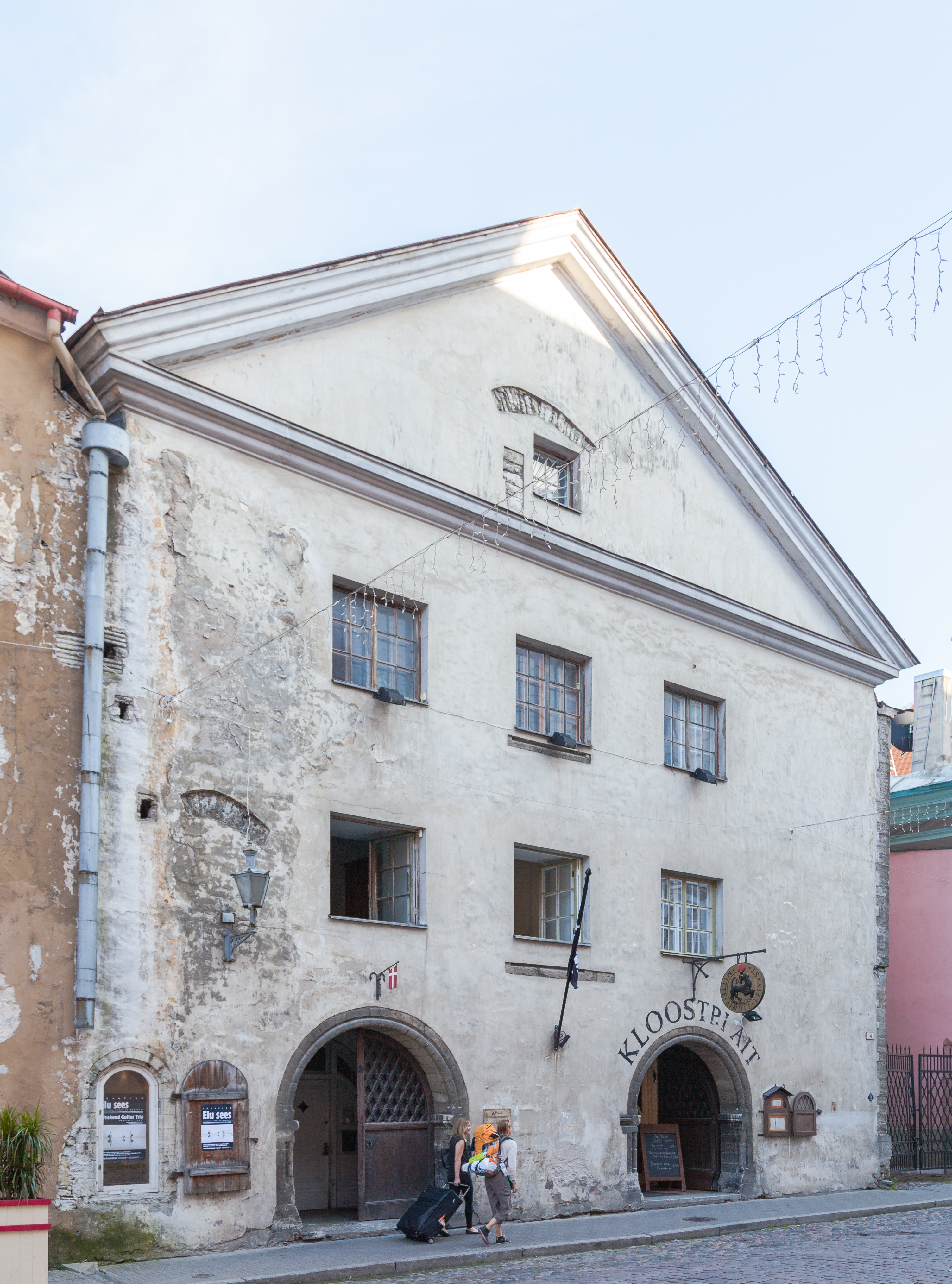 Restaurant Kloostri Ait, Tallinn, Estonia